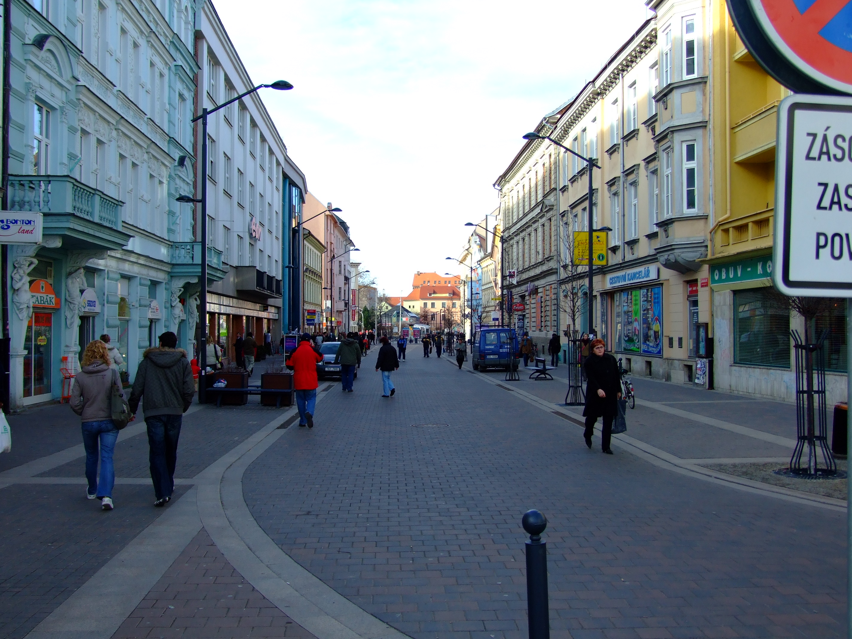 Lannova street, busy street in České Budějovice, CZ